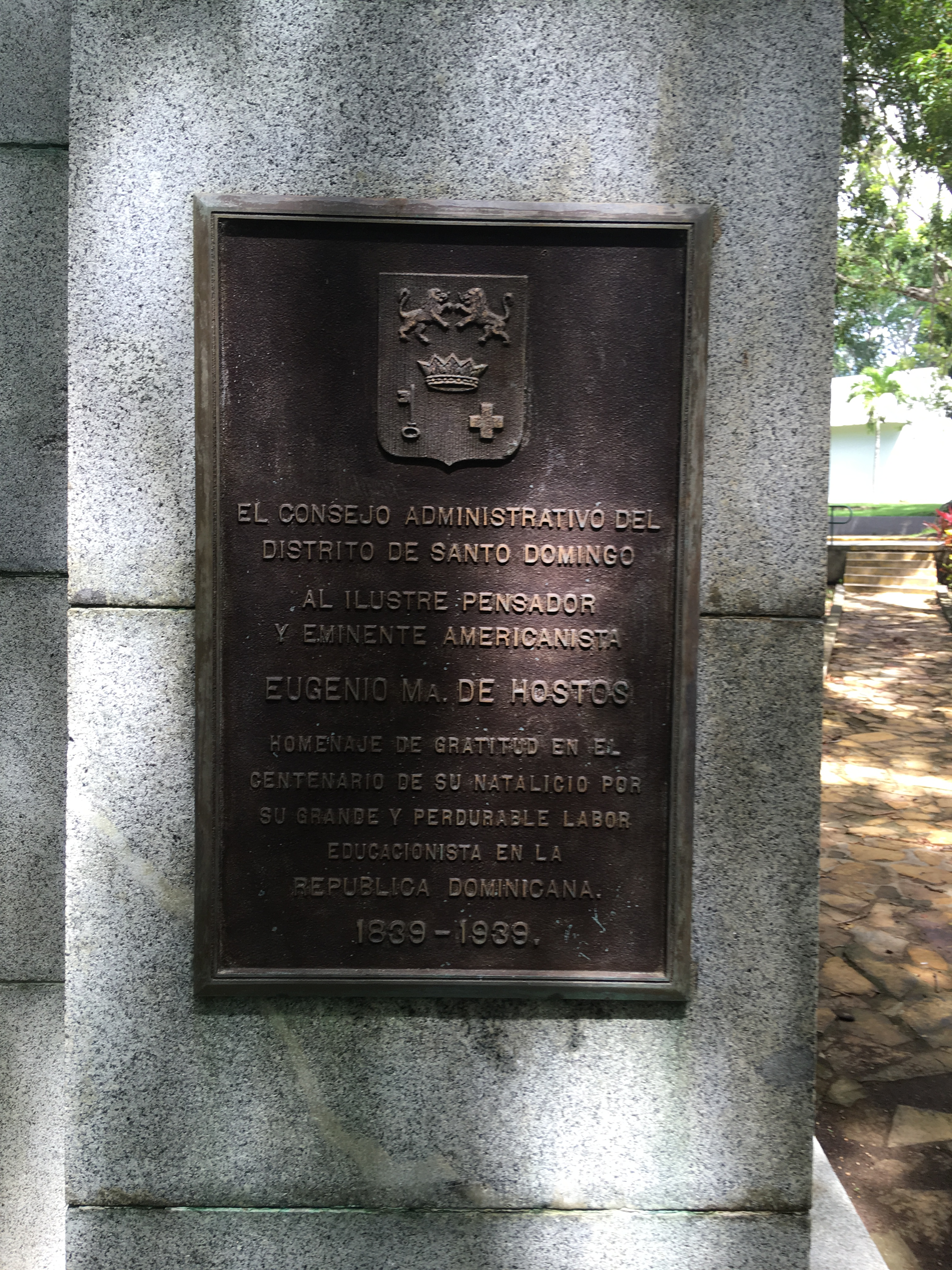 Side plaque on Hostos monument, Universidad de Puerto Rico, Rio Piedras campus